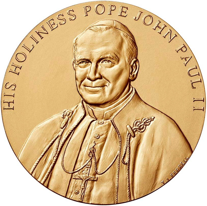 Congressional Gold Medal awarded to Pope John Paul II